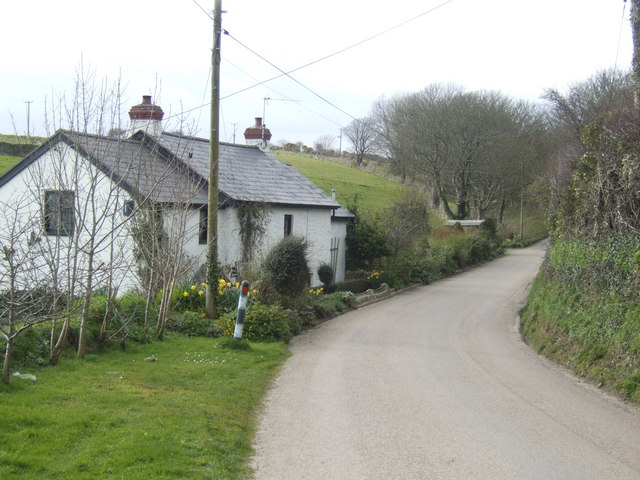 Cottage at Treloquithack